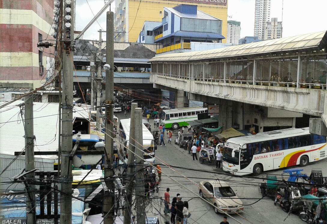 MRT 2-LRT 1 Connecting Bridge. Self-taken.